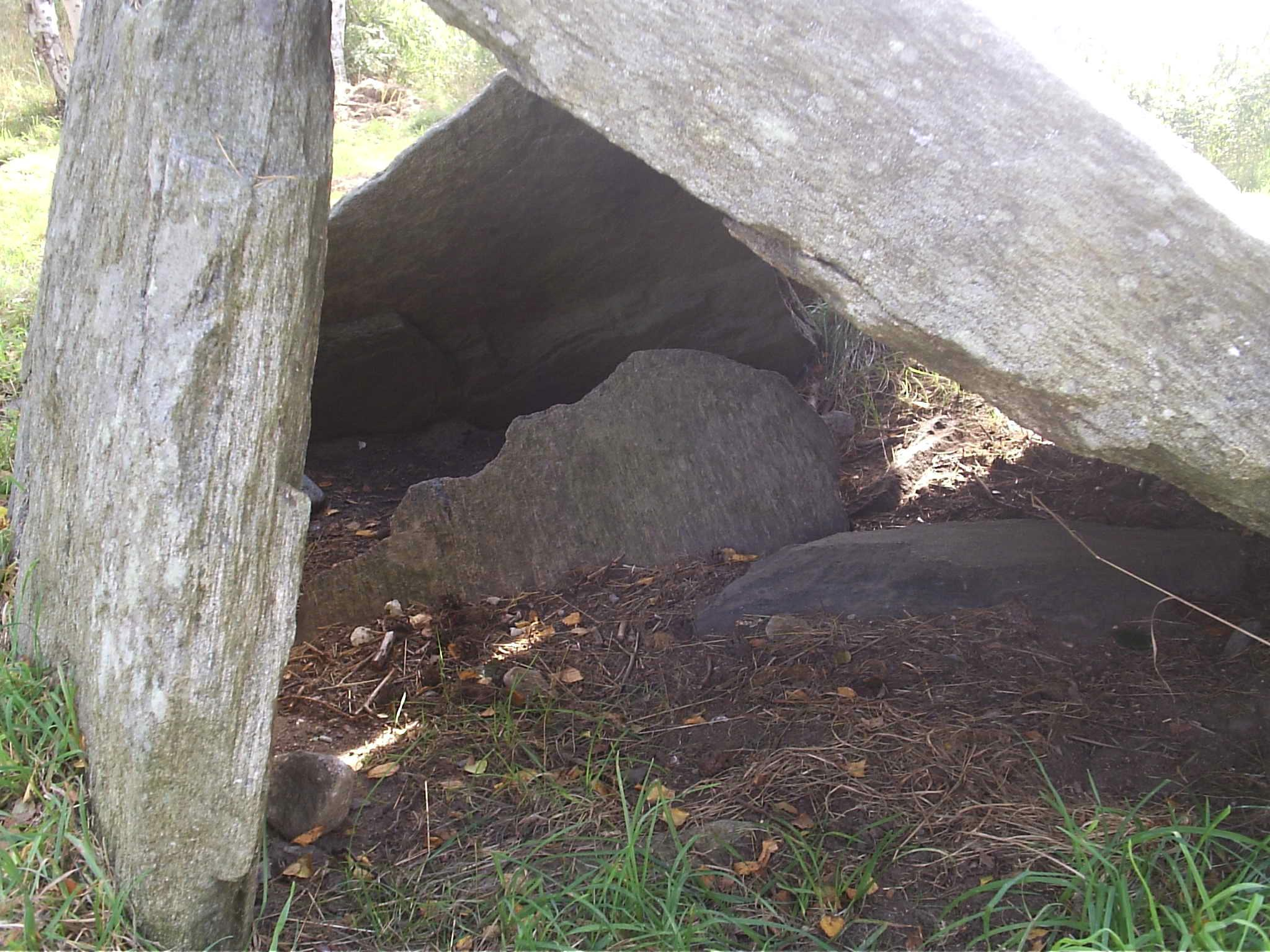 Photo by Harri Blomberg.